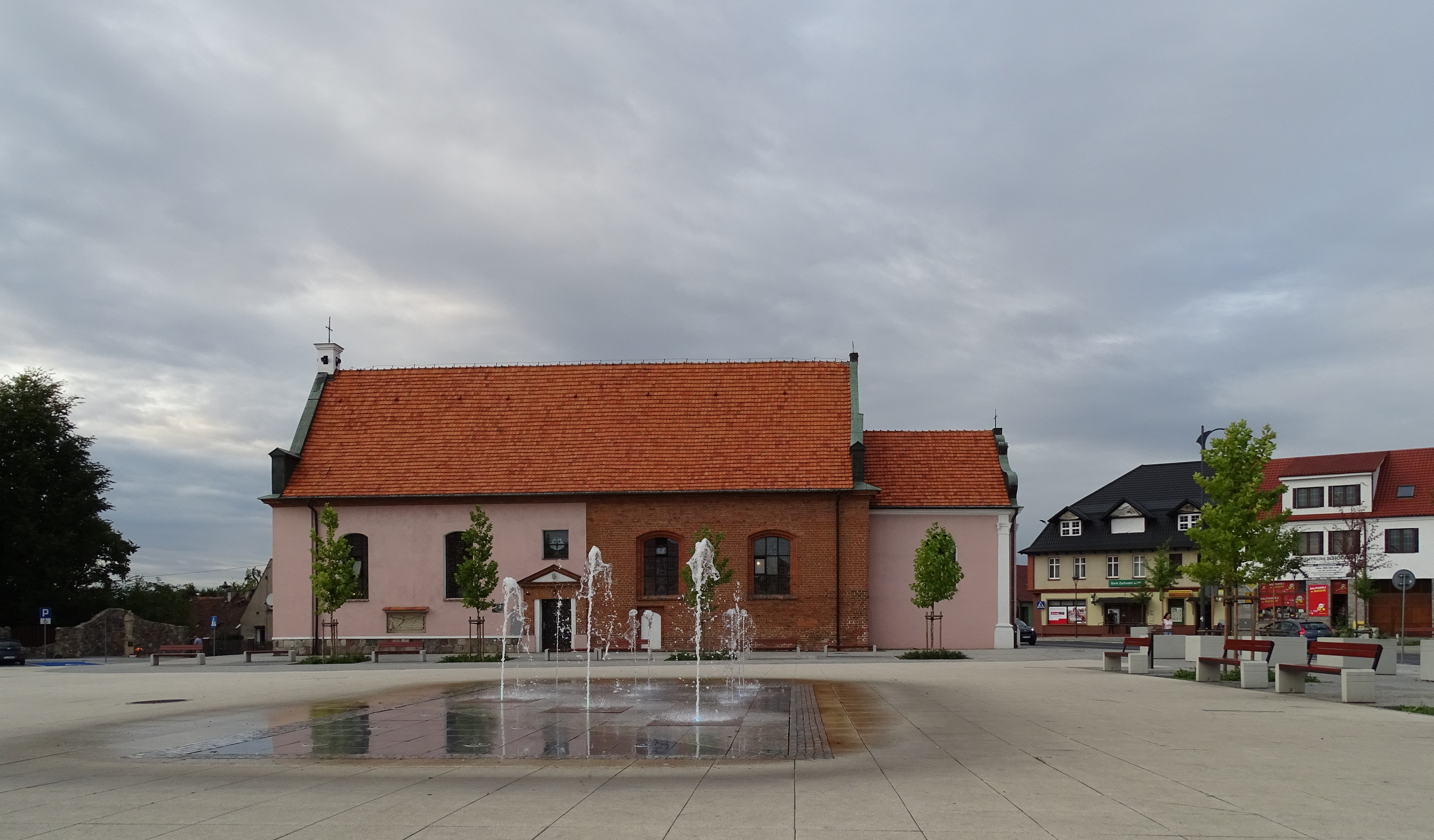 Murowana Goślina, Greater Poland. Church of Saint James. Built in the turn of XV century, rebuilt in the XVIII.